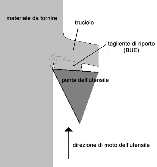 Schematic diagram showing the formation of a built up edge (BUE) in metal single point cutting operations.